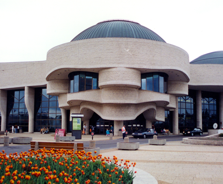 Canadian Museum of Civilization, Hull, Quebec, Canada. The museum building was completed in 1989. It was designed by Canadian architect: Douglas Cardinal.